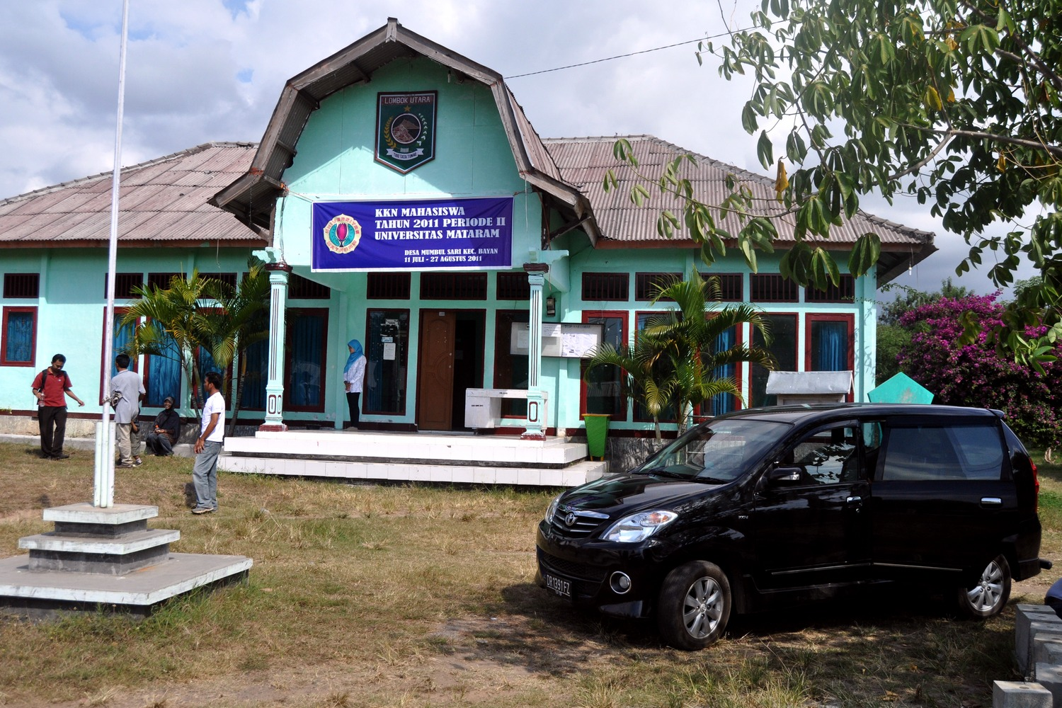 Mumbul Sari Village office, North Lombok, Indonesia